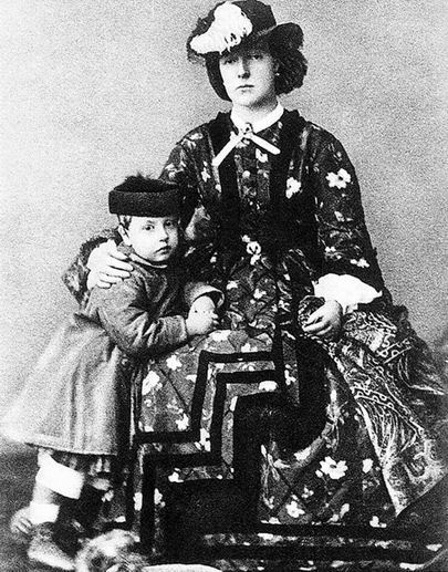 Queen of Belgium Marie Henriette (1836-1902) and her son Leopold, Duke of Brabant (1859-1869)